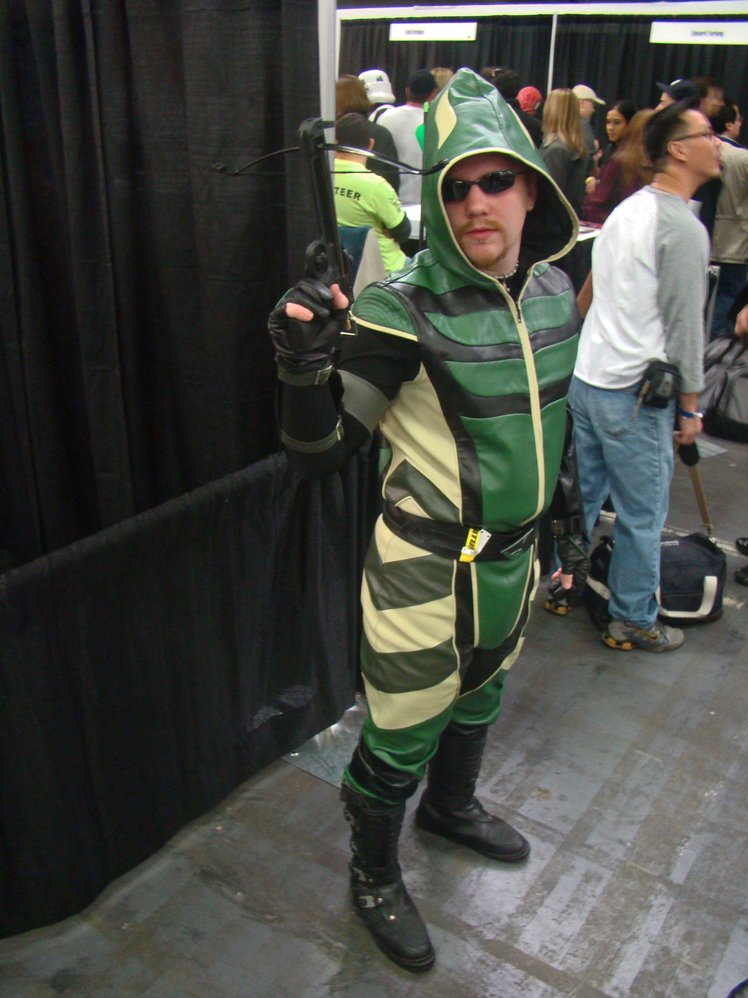 Smallville's Green Arrow, Big Apple Con, Saturday October 17, 2009. New York City. A big thanks for everyone at the Con who let me take their picture. If you see yourself in my pictures let me know at: loser [at] istolethe [dot] tv.